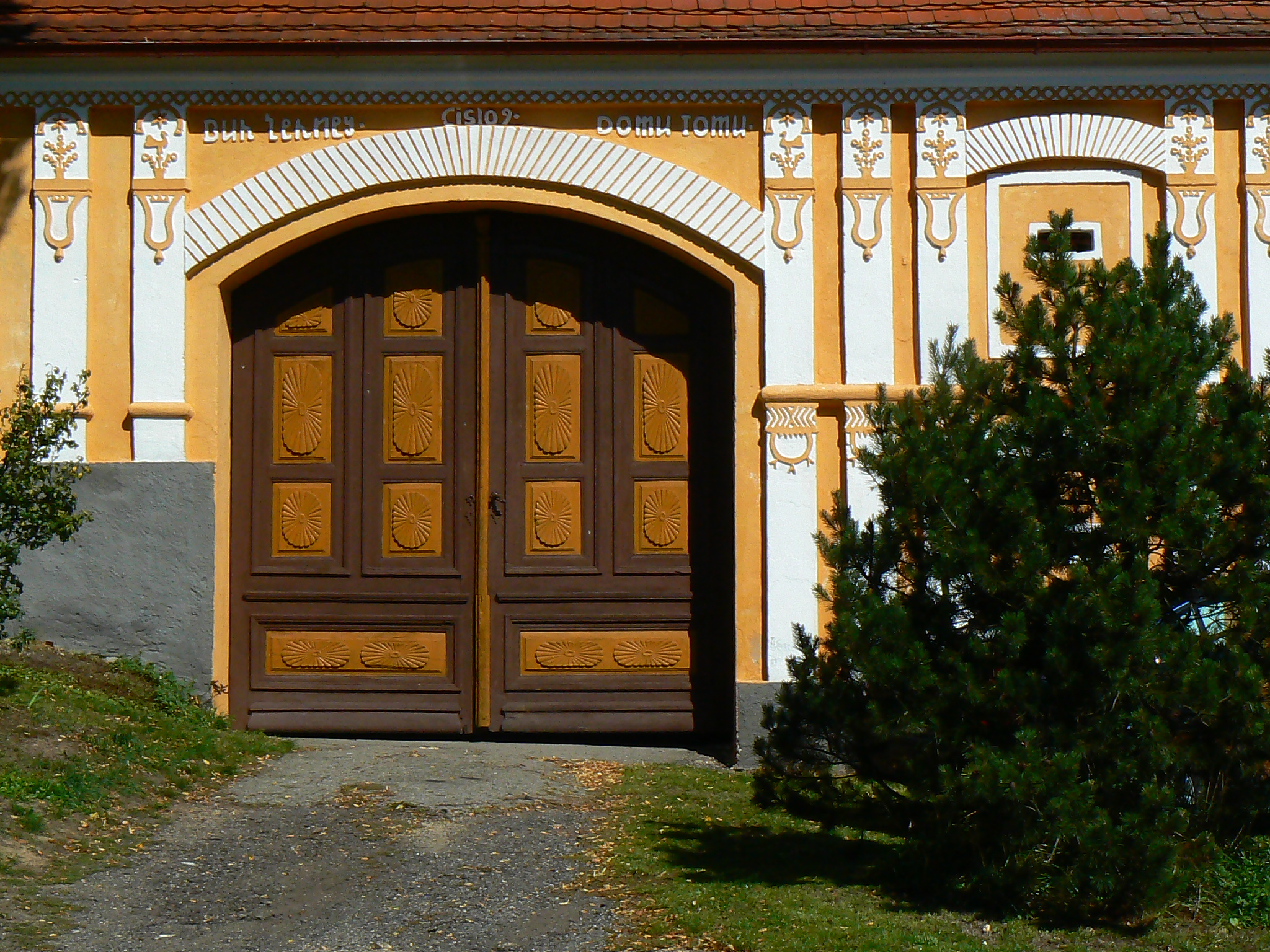 Vlastiboř, Tábor District, Czechia, part Záluží. Country Baroque architecture - cottage entrance.